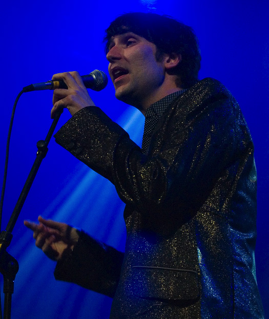 Jamie Lidell at moers festival 2006 own photo, june 4, 2006- photo: nomo/michael hoefner